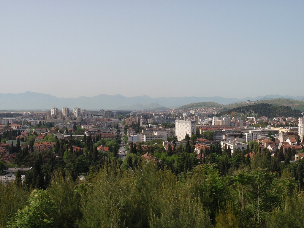 View on Podgorica town from Gorica hill